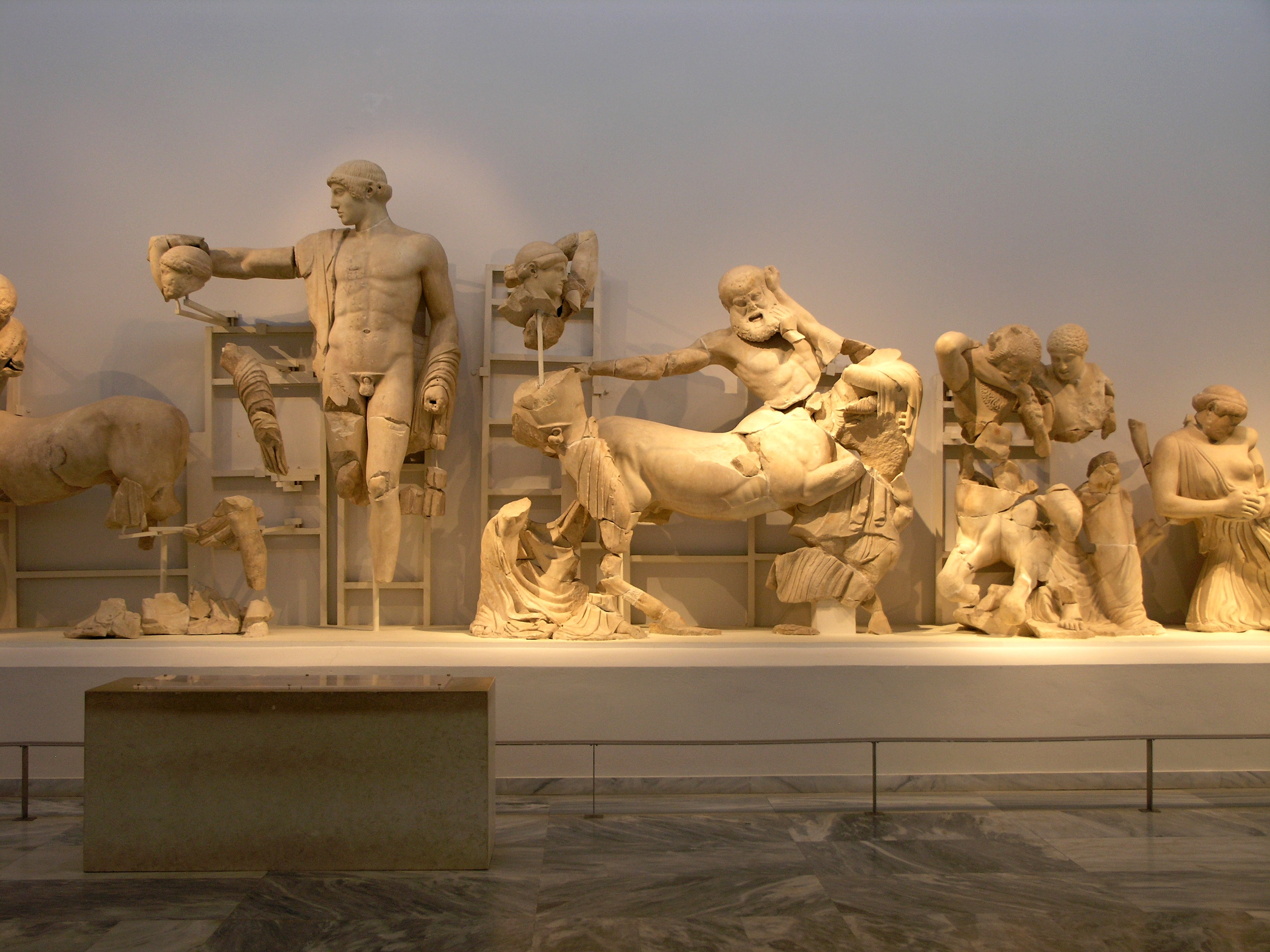 Sculptures of the west pediment of the Temple of Zeus at Olympia. Olympia Archaeological Museum.